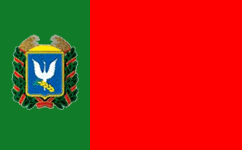 Flag of Zacepylivskyj district (Ukraine)